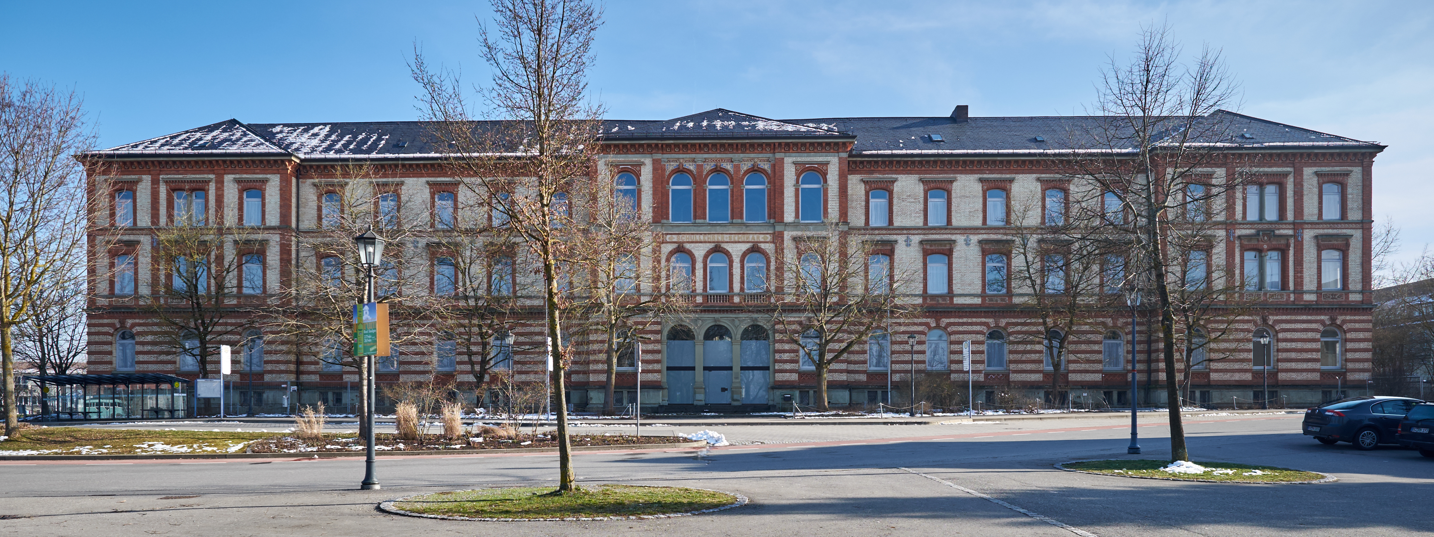 Building in the Schützenstraße, once a seminar for teachers, later main building of the Toin Gakuen Schule Deutschland, Bad Saulgau, district Sigmaringen, Baden-Württemberg, Germany